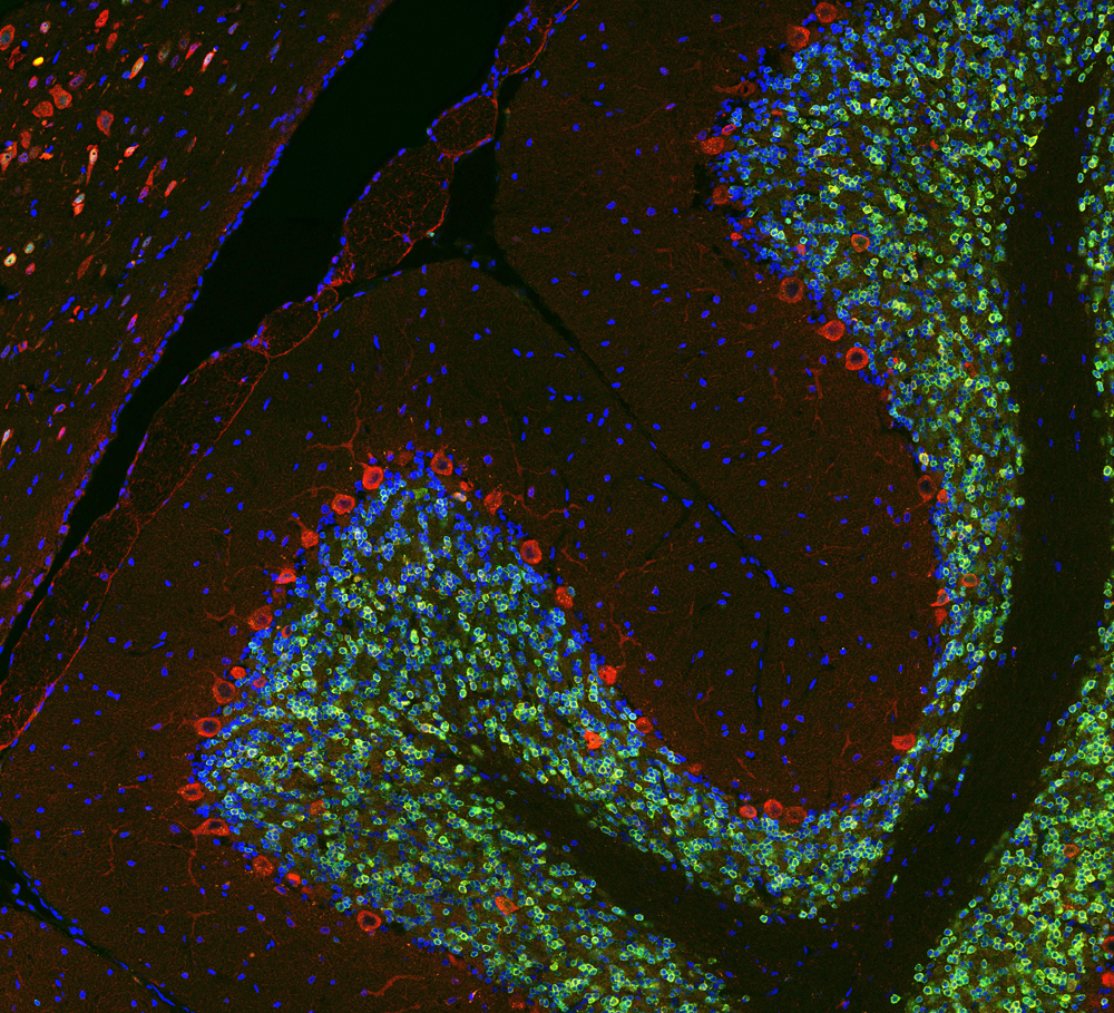 Fox-3/NeuN is a nuclear and proximal cytoplasmic marker of the majority of mature neurons, and antibodies to this protein are therefore used to identify neurons. Here is shown antibody staining for Fox-3/NeuN in the adult rat cerebellum in green. The Fox-3/NeuN antibody binds to small cerebellar granule cells. In contrast a close relative of Fox-3/NeuN, Fox-2, shown in red, stains Purkinje and Golgi neurons which are not recognized by the Fox-3/NeuN antibody. DNA is shown in blue. Image courtesy of EnCor Biotechnology Inc.